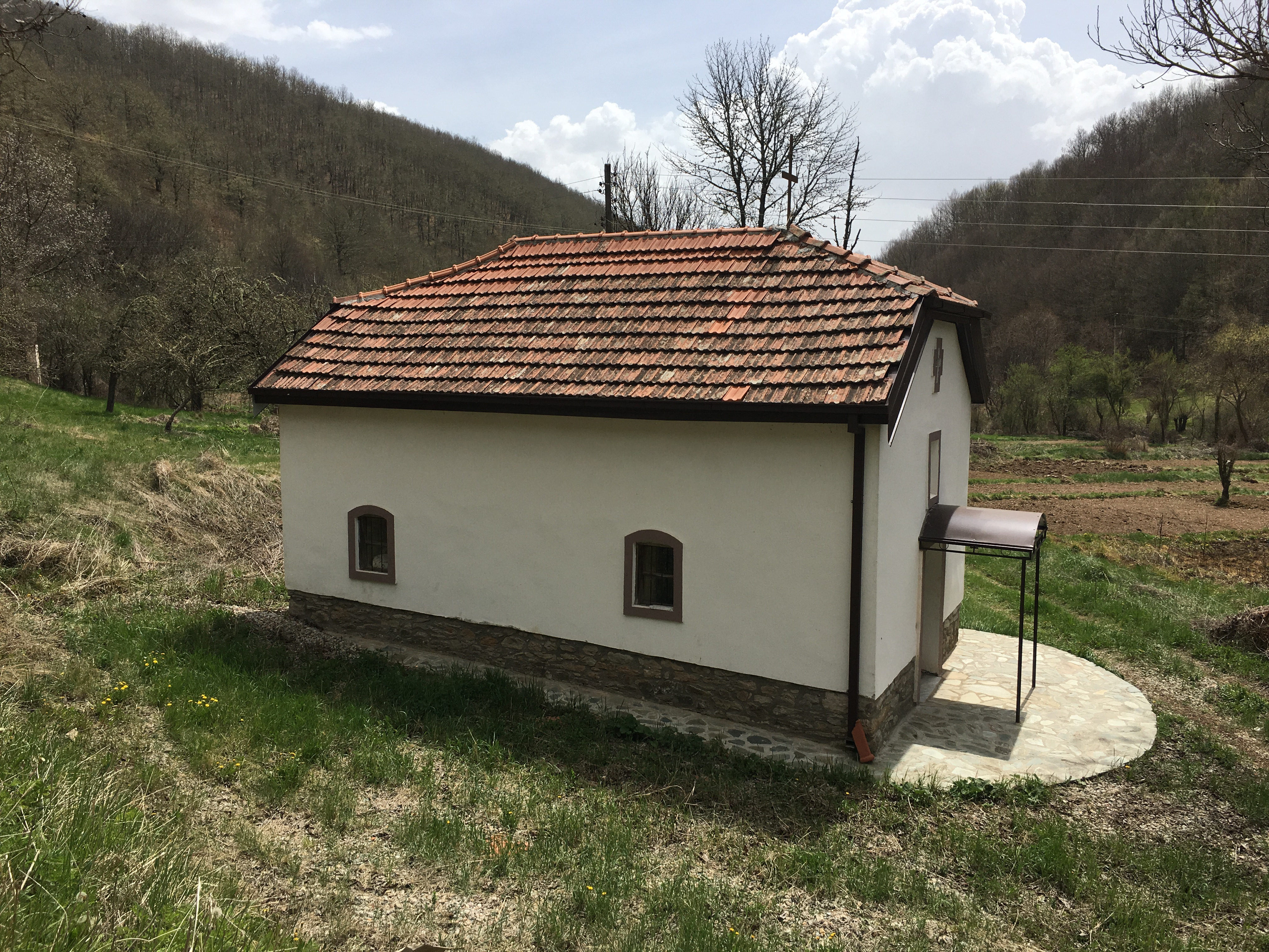 St. Demetrius Church in the village of Dobrovnica